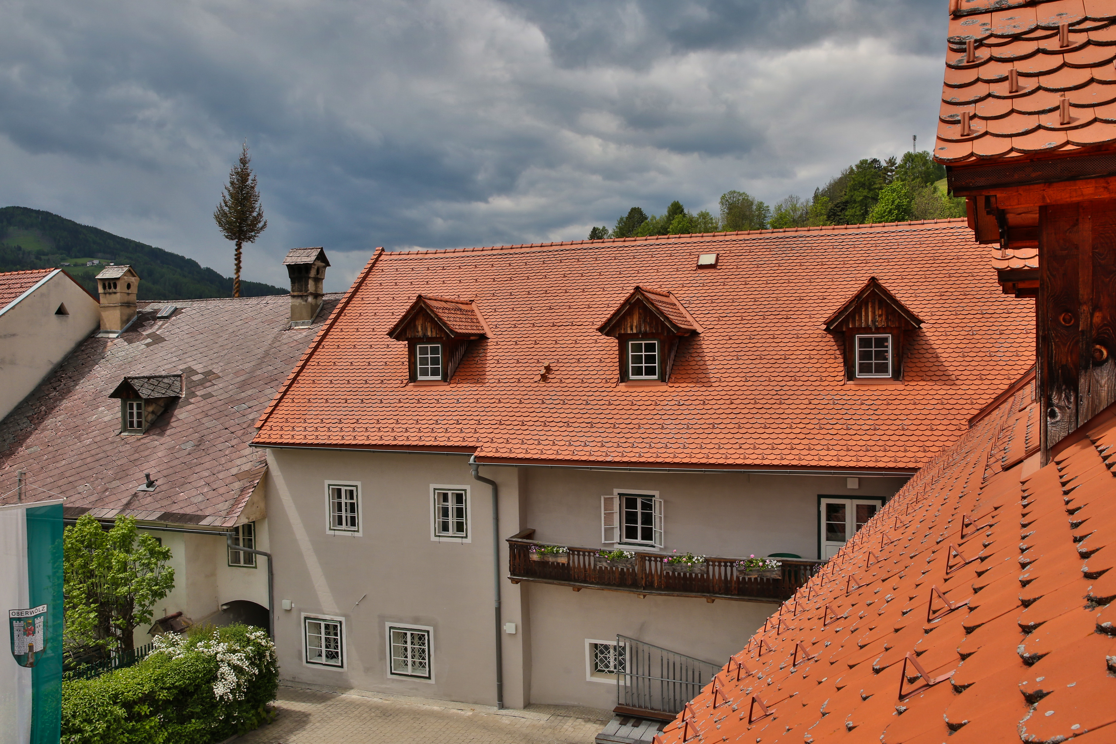 Austrian Brass Music Museum in Oberwölz / Styria / Austria / EU. Rear side of the track to the main square in west direction. On the main square there is a maypole which can be seen above the roofs. Thunderstorm in the late morning.